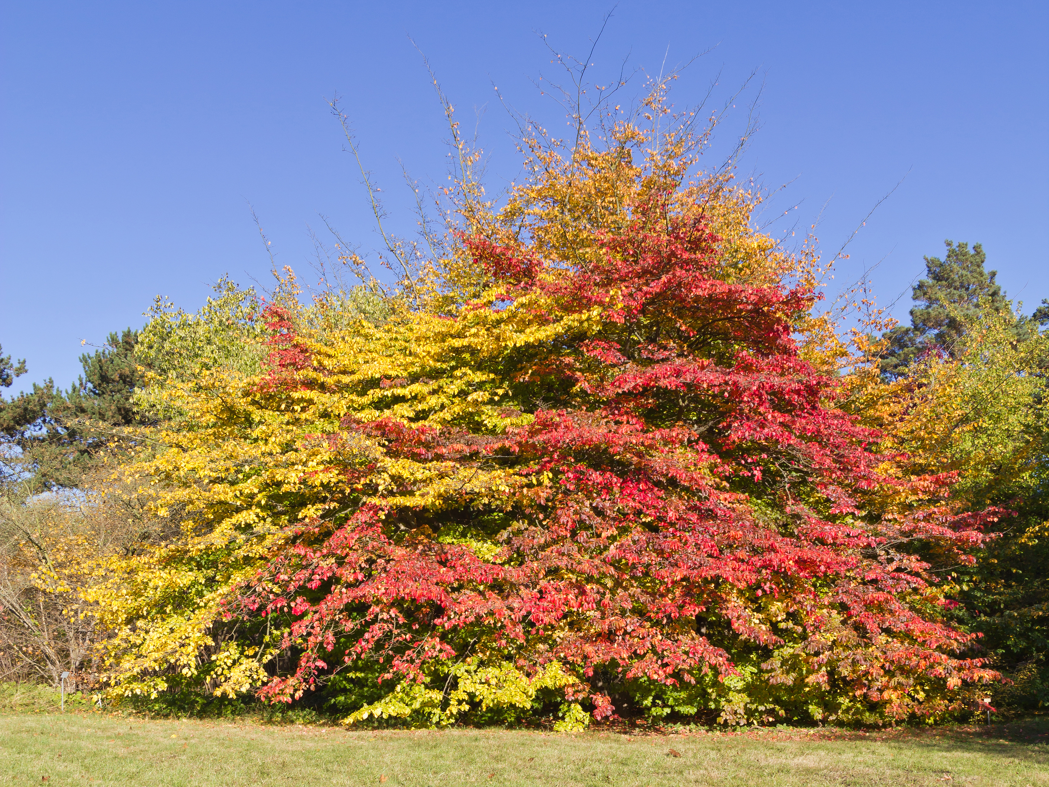 Berlin-Dahlem Botanical Garden in autumn 2014 / Parrotia persica